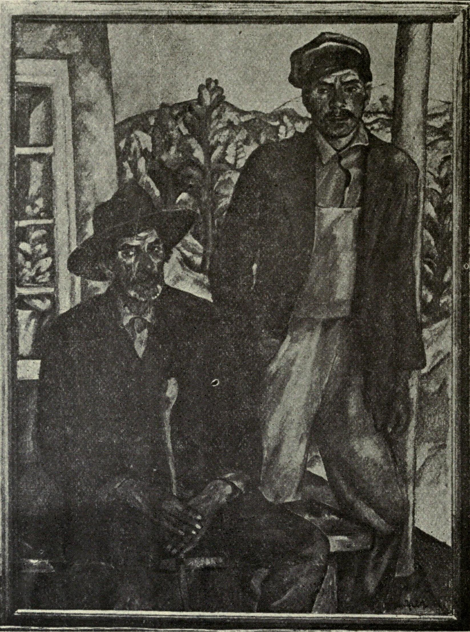 Father and Son.